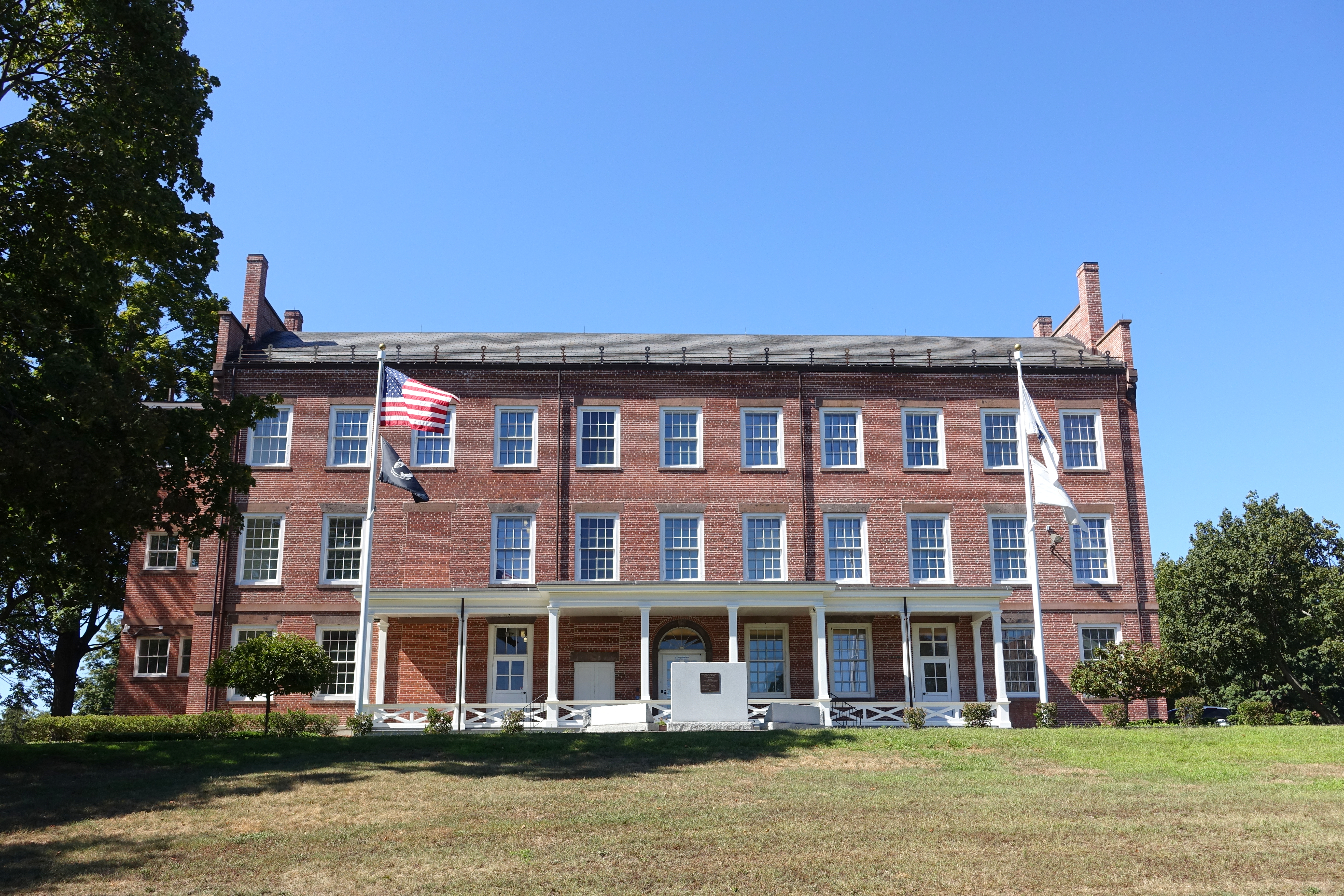 Springfield Armory National Historic Site - Springfield, Massachusetts, USA.